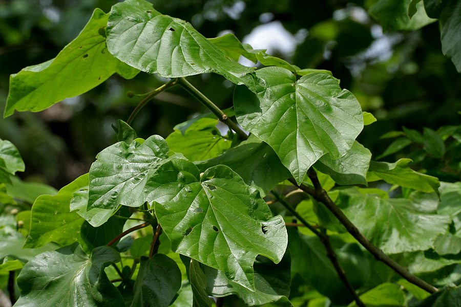 Haldina cordifolia (syn. Adina cordifolia , Nauclea cordifolia) - Haldu • Hindi: करम Karam, कदमी Kadami • Marathi: हळ्दू Haldu, हॆदू Hedu • Tamil: Mannakatampu • Malayalam: Manjakadambu • Telugu: Pasupu-kadamba • Kannada: Yettega • Oriya: Holondo • Assamese: Tarakchapa • Sanskrit: गिरिकदम्ब Girikadamba at Ananthagiri Hills, in Rangareddy district of Andhra Pradesh, India.